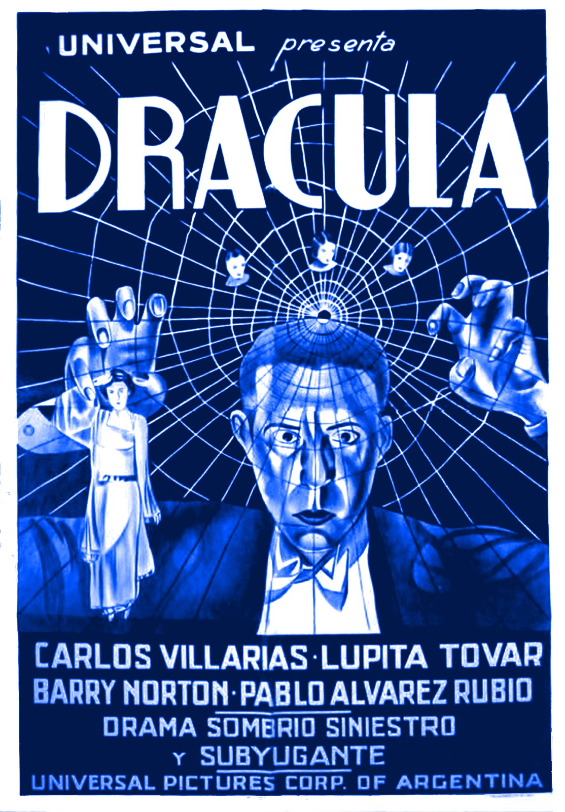 Theatrical release poster for the 1931 Spanish-language film Dracula, an adaptation of Bram Stoker's 1897 novel of the same name, released by Universal Pictures the same year as the production company's separate.